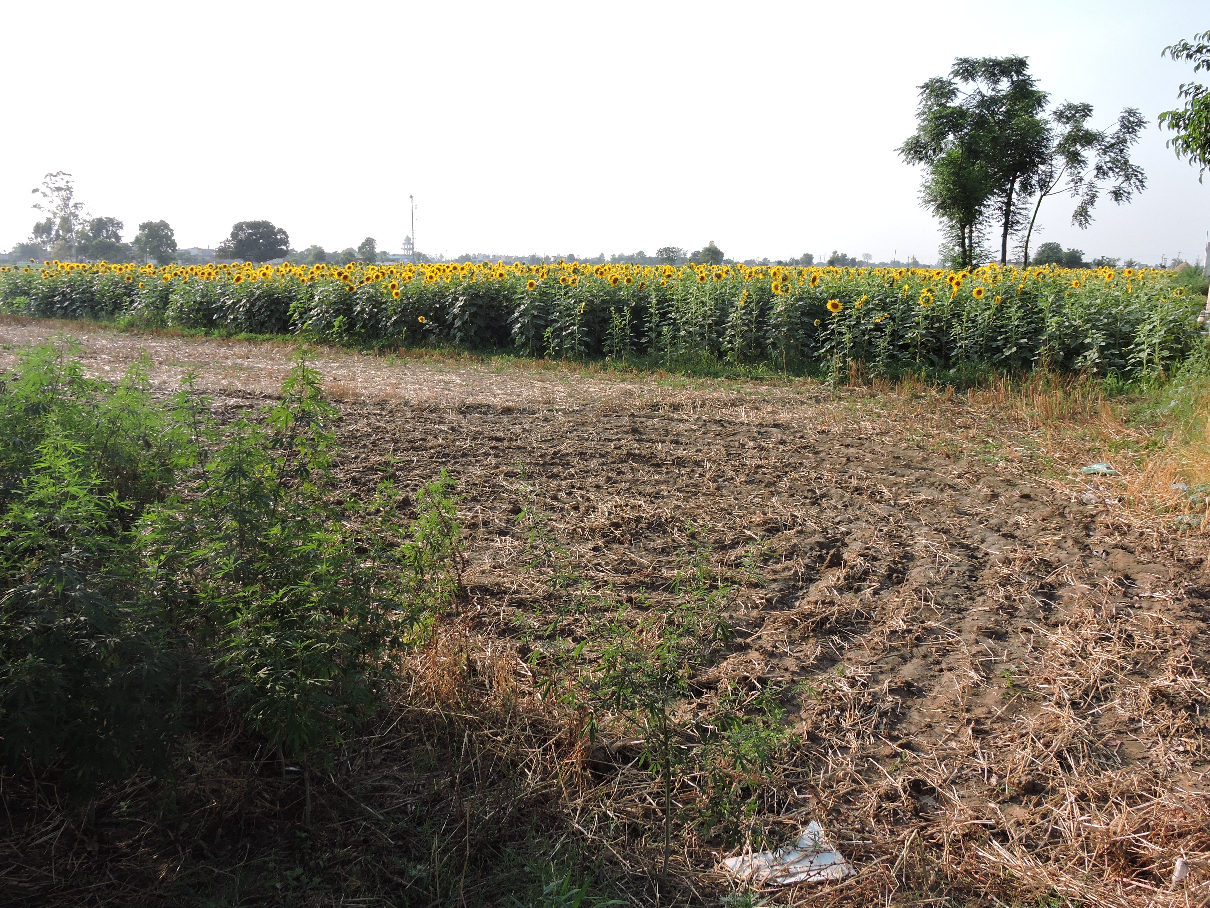 Punjab ,India in spring, -Patiala Sirhind road midway